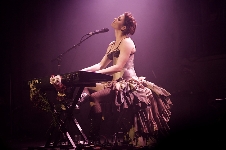 Amanda Palmer Live 2008